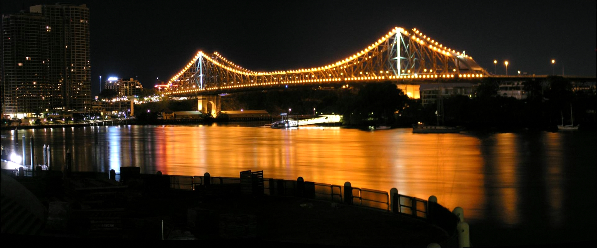 Story Bridge in Brisbane, Australia. Taken from Riverside.